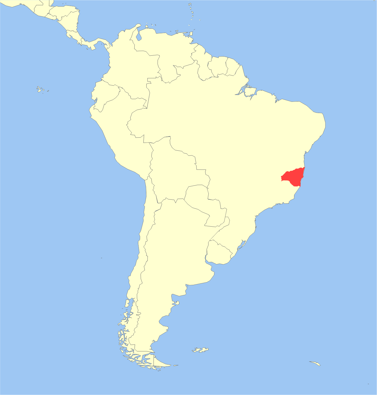 Geographic distribution of the Sapajus robustus.